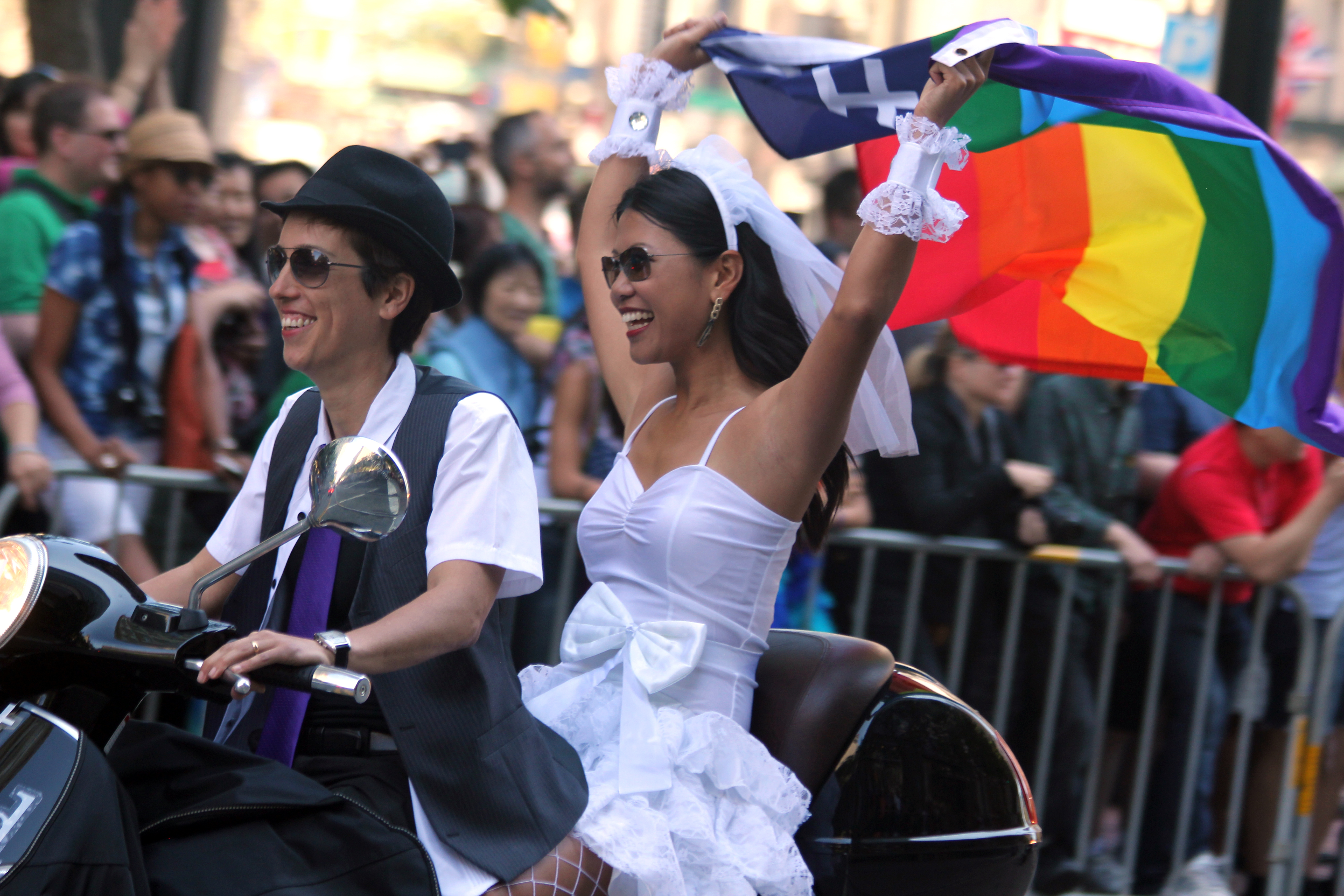 Just married